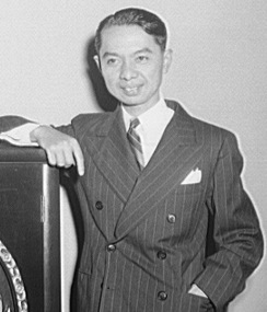 Original caption: “Thailand Minister Mom Rajawongse Seni Pramoj who gave a reception at the Thai Legation in Washington, D.C., in celebration of the nineteenth birthday of King Ananda of Thailand, who is currently residing in Switzerland.”